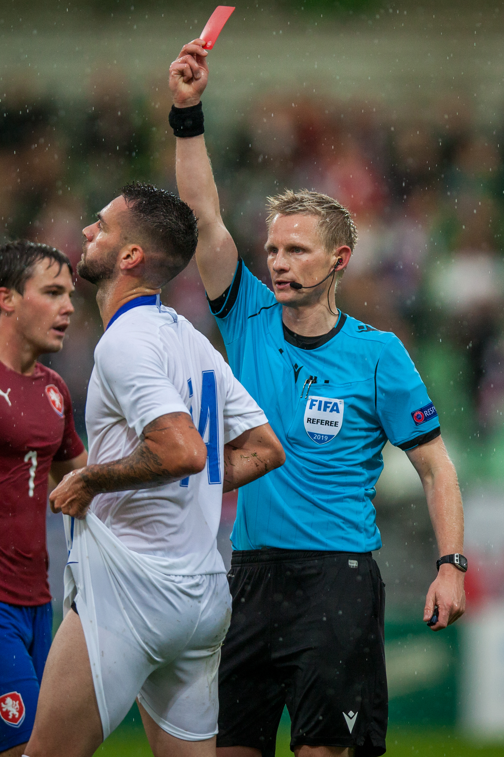 Referee Jorgen Burchardt giving the red card to Konstantinos Dimitriou (Pavel Buchta captured in the background), in an internatinoal association football match of European Under-21 Championship Qualifying Round between the Czech Republic and Greece, City Stadium in Karviná, Karviná District, Moravian-Silesian Region, Czechia Personality rights warningAlthough this work is freely licensed or in the public domain, the person(s) shown may have rights that legally restrict certain re-uses unless those depicted consent to such uses. In these cases, a model release or other evidence of consent could protect you from infringement claims.